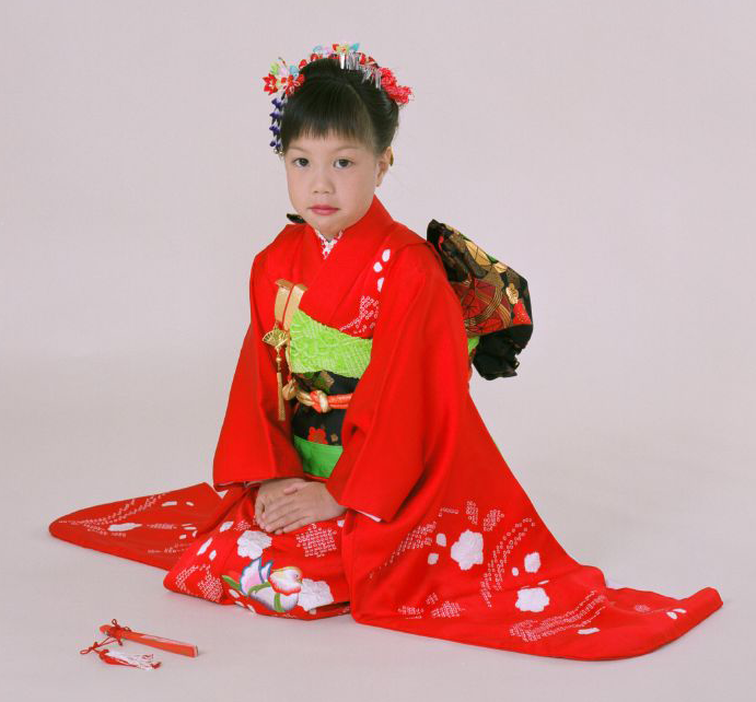 "to liyin She is my daughter. I took in her for her 7 years old celebration. This is when she wore the kimono. This type of clothes are of the girl traditional of Japan."